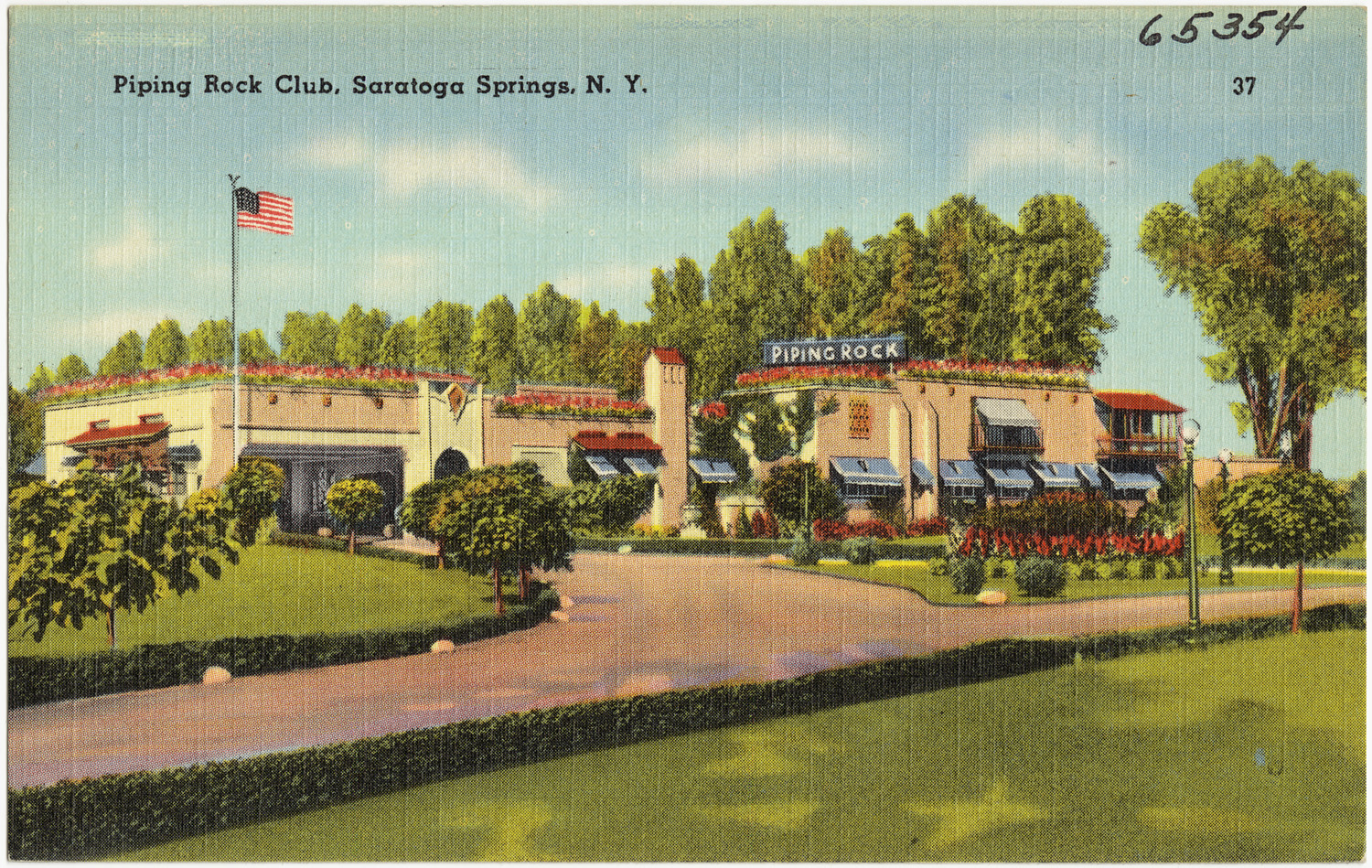 Postcard showing the Piping Rock Club in Saratoga Springs, New York.